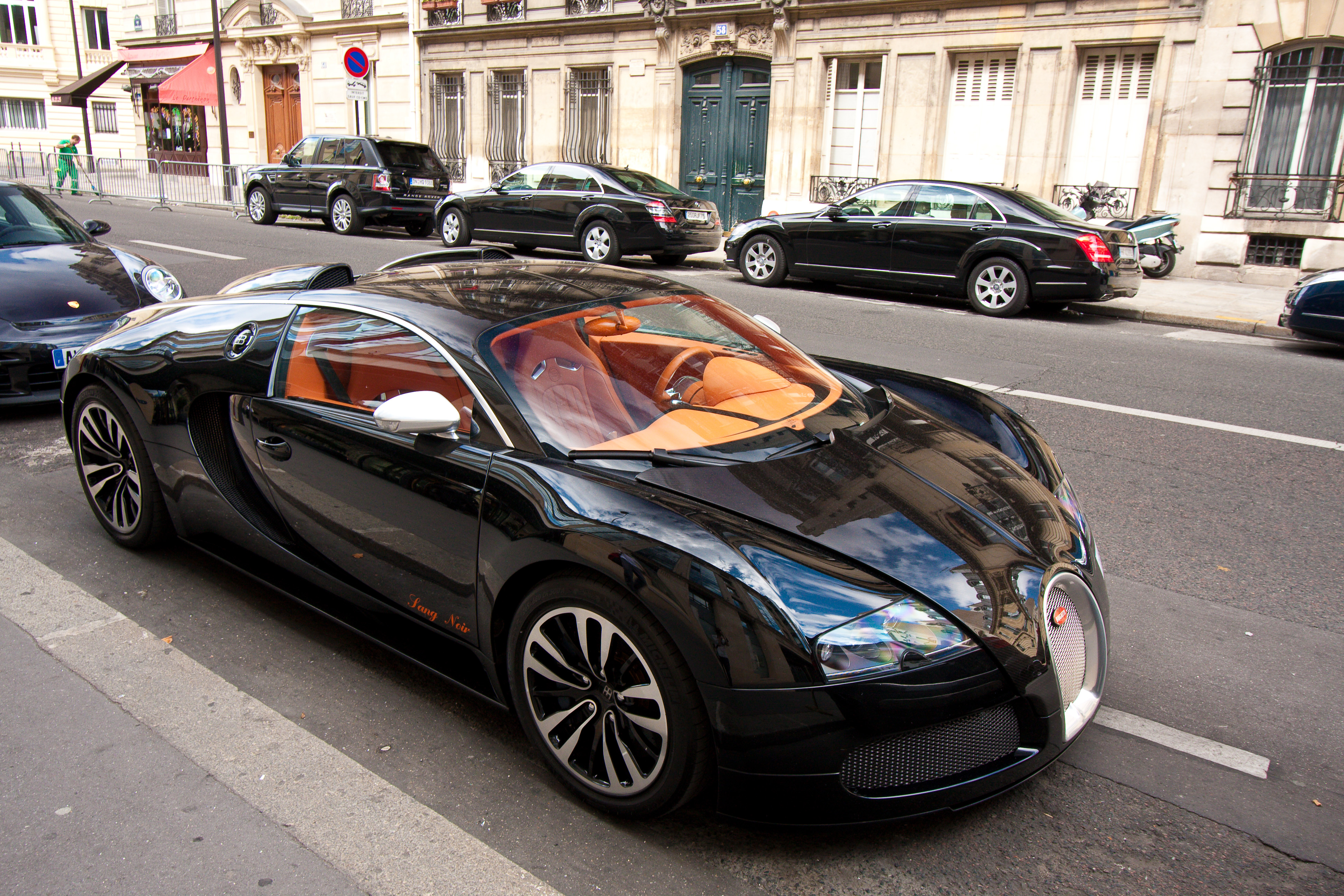 Bugatti Veyron "Sang Noir"